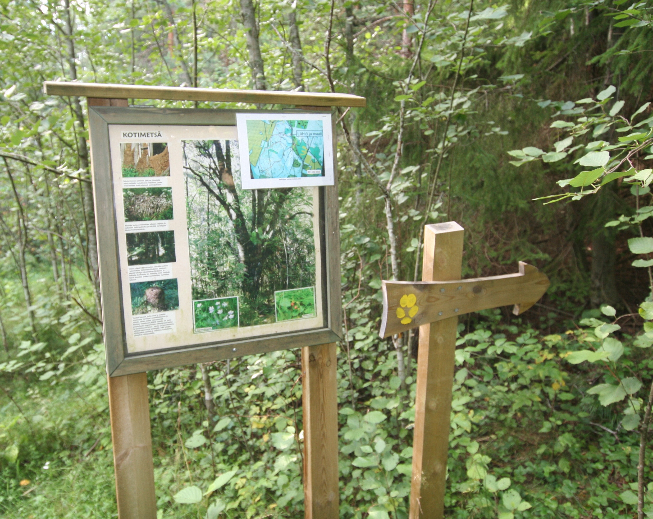 Signs in Mallusjoki forest, Orimattila